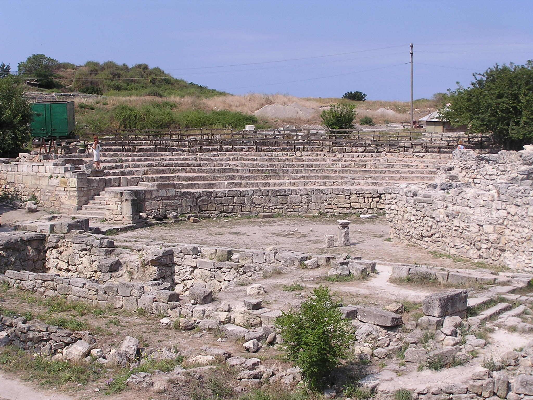 Chersonesos Taurica. Ancient theater. The only one theater found in the ancient cities of the Northern Black Seaside. Built in the III BC between the defensive wall and main street. About 2,5 thousand places.